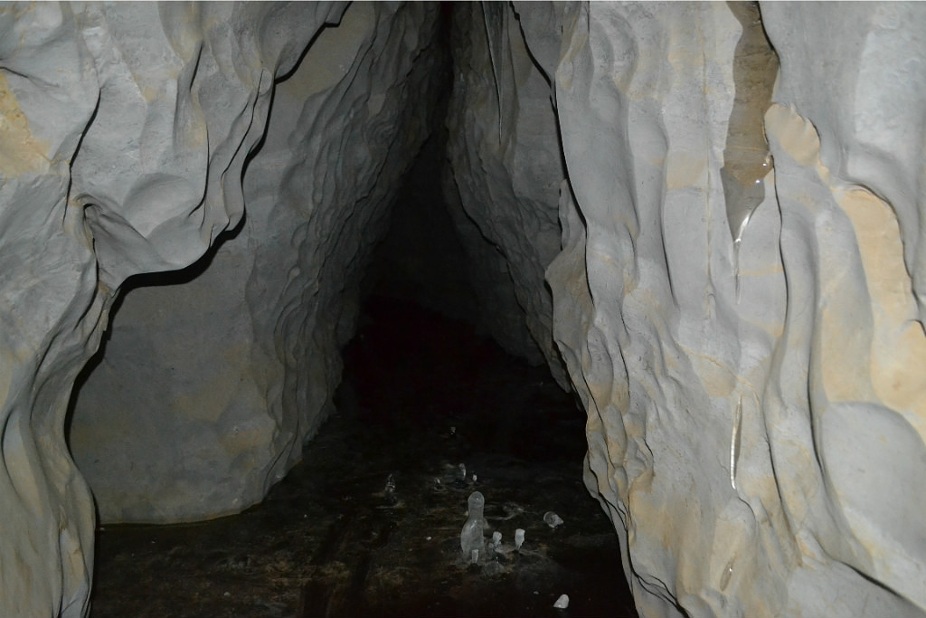 Russia. Middle Urals. Cave "Shemakha-1" and an underground river.